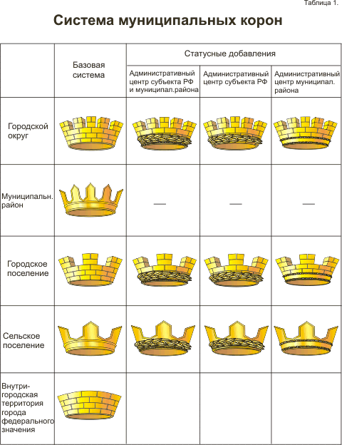 System of Russia municipal crowns